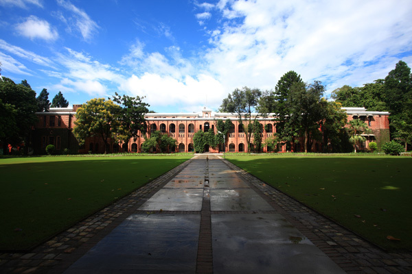 Main building of The Doon School behind the southern gardens. The Doon School is an independent boarding school in Dehradun, India, and was founded in 1935 by Satish Ranjan Das. Its first headmaster was Arthur Foot, a former science teacher at Eton College.